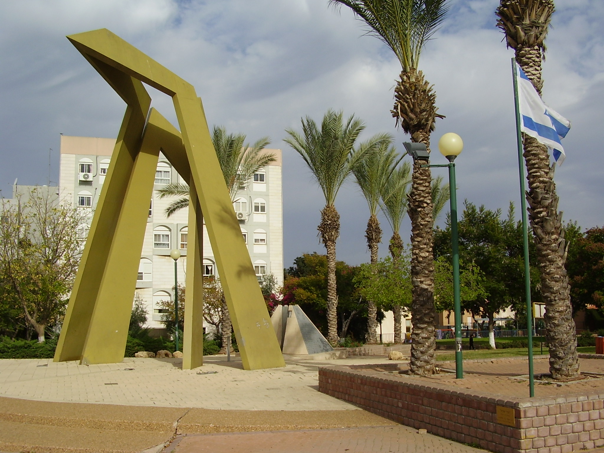 war memorial in kiryat gat אנדרטה בקריית גת , לנופלים במערכות ישראל